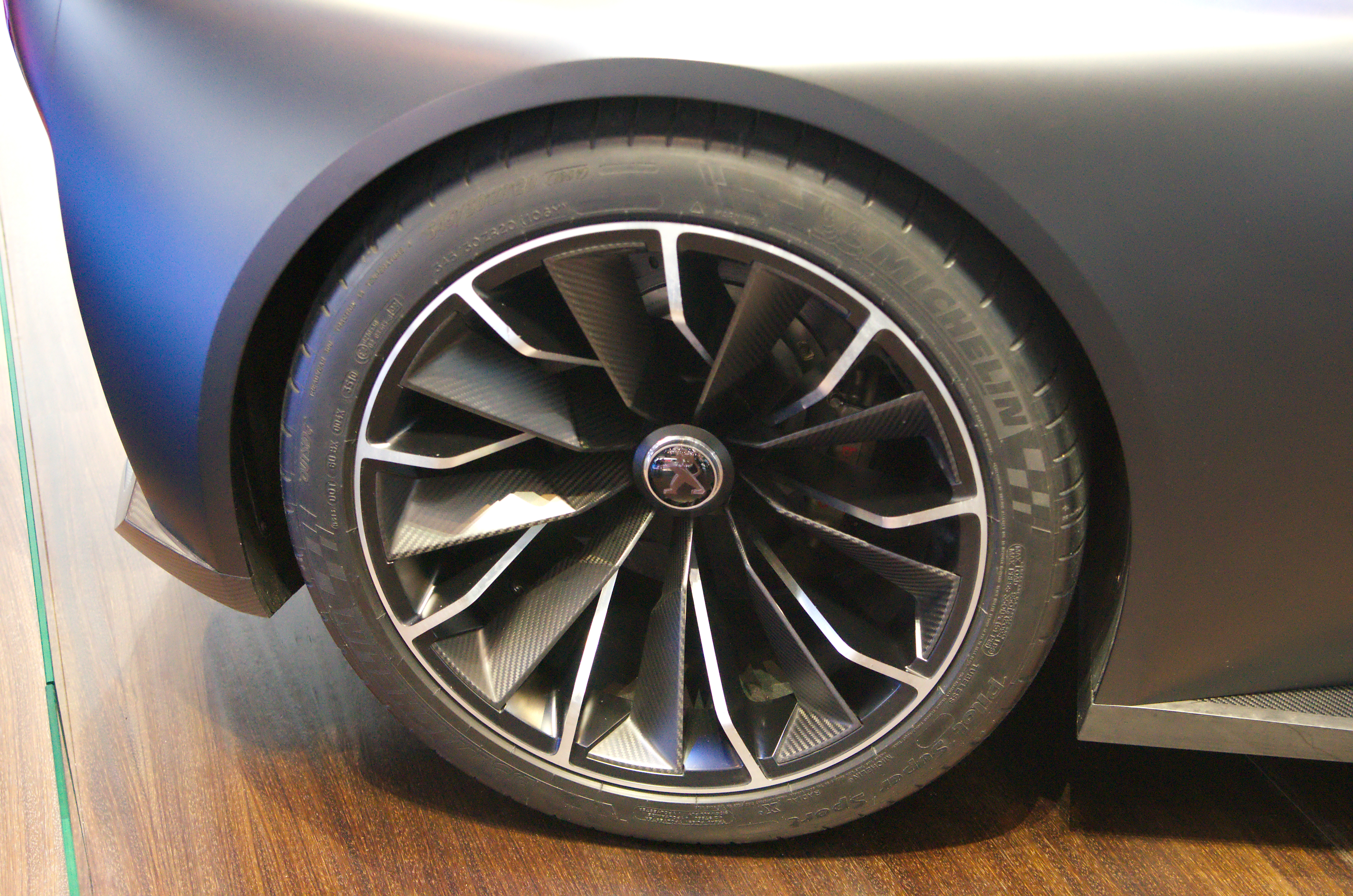 Geneva MotorShow 2013 - Peugeot Onyx rear tyre